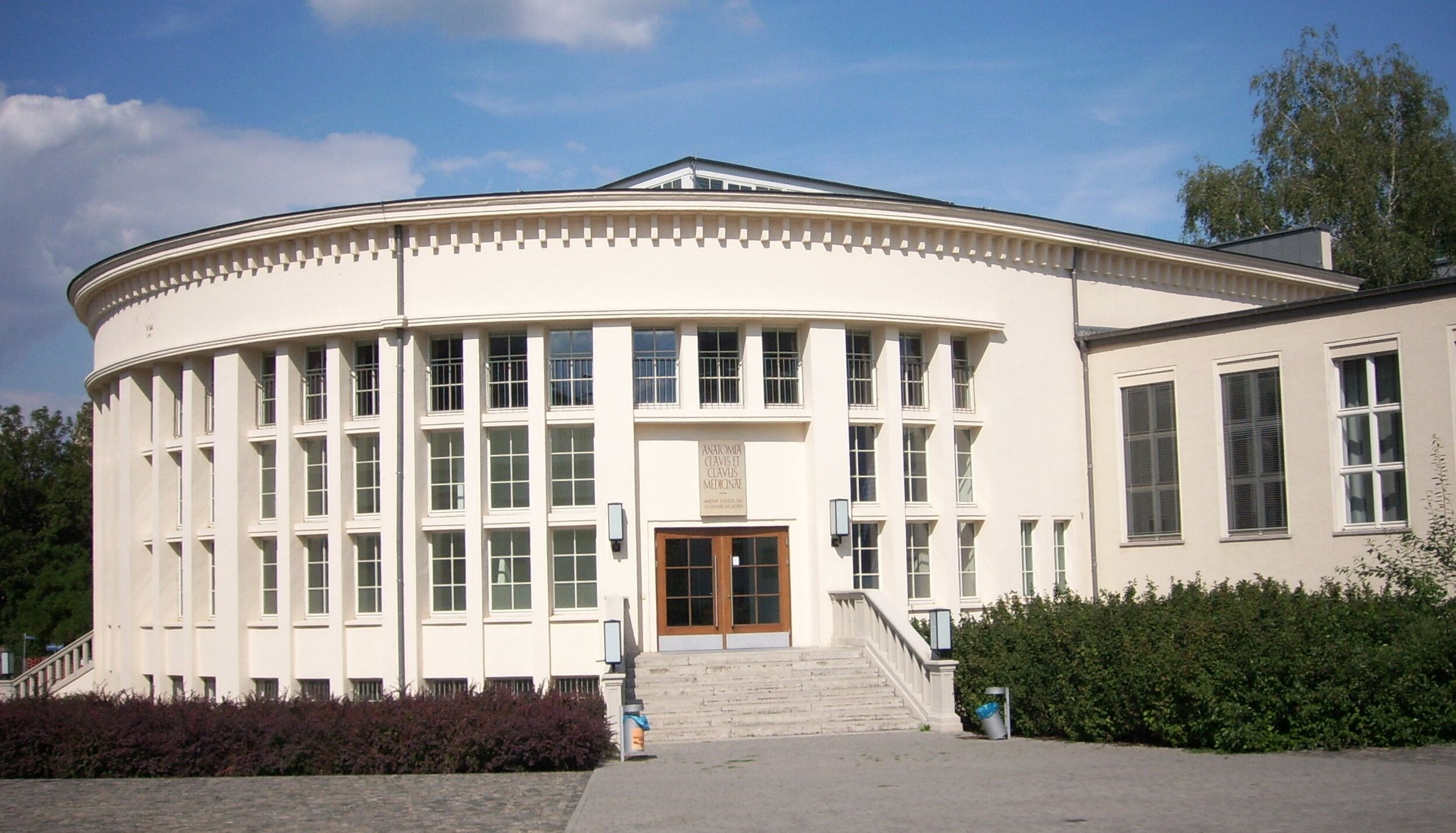 Lecture hall of the Anatomy department of the Leipzig University